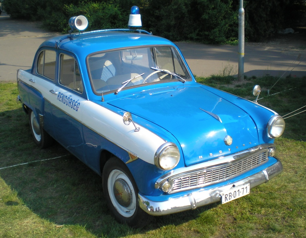 Moskvich 407, used as Hungarian police car